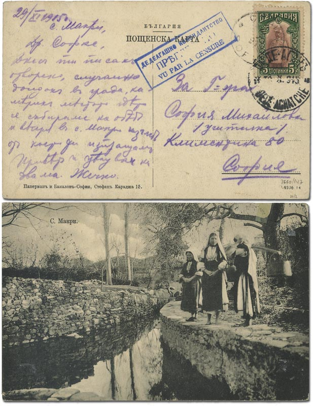 Local Bulgarian young girls, Makri 1915